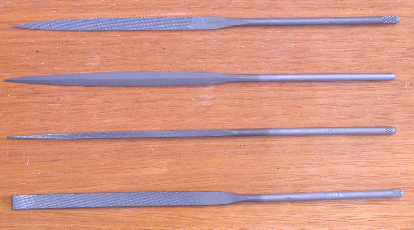 Four small needle files